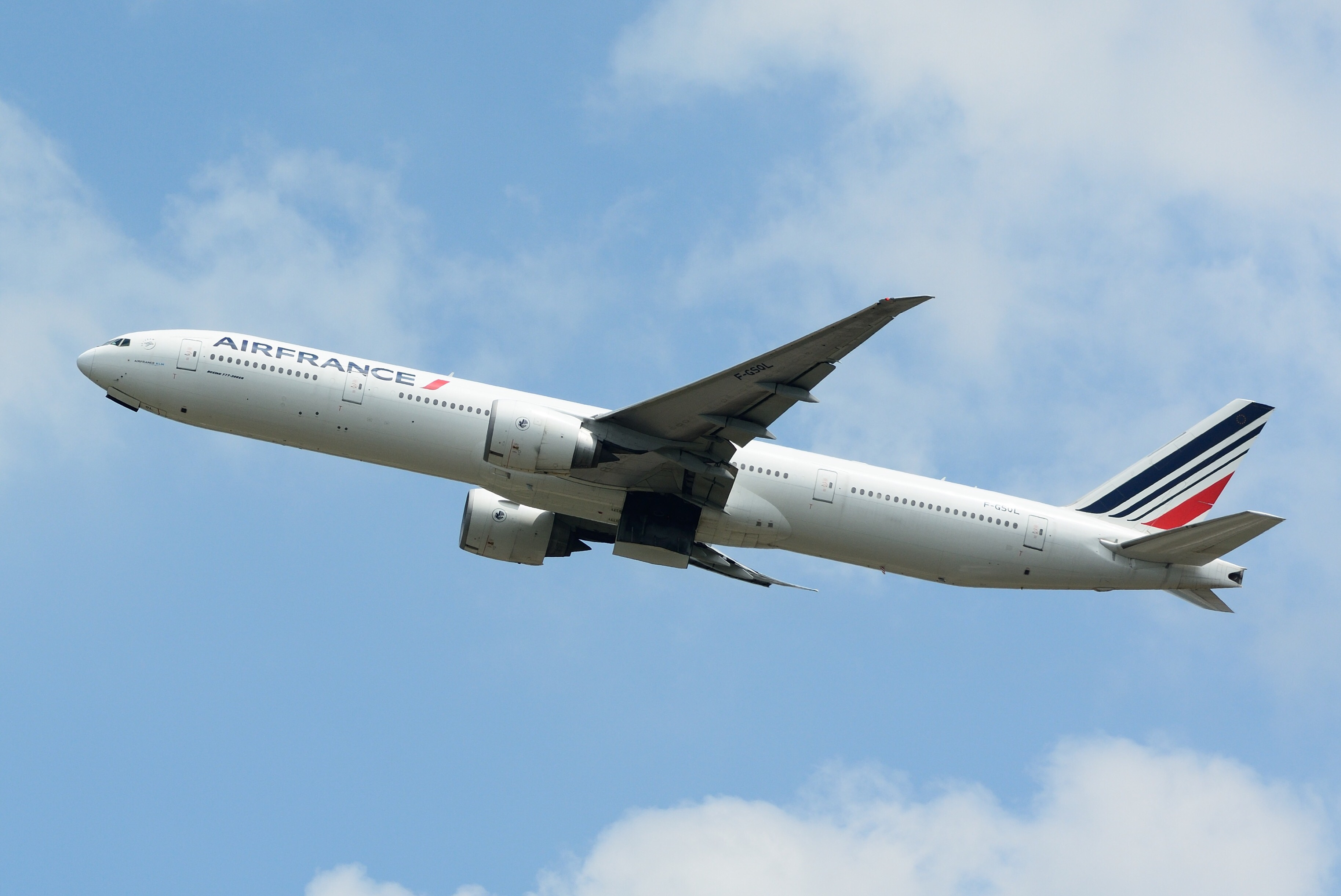 Airfrance, Boeing 777-300ER F-GSQL NRT